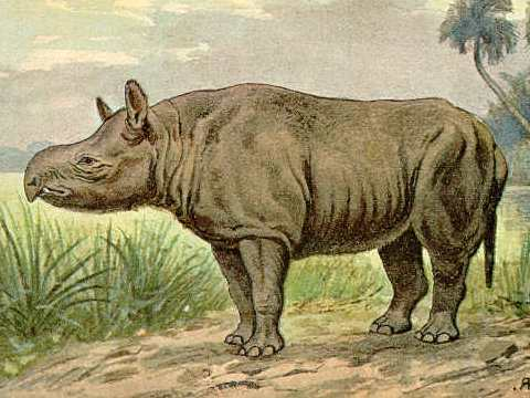 Aceratherium